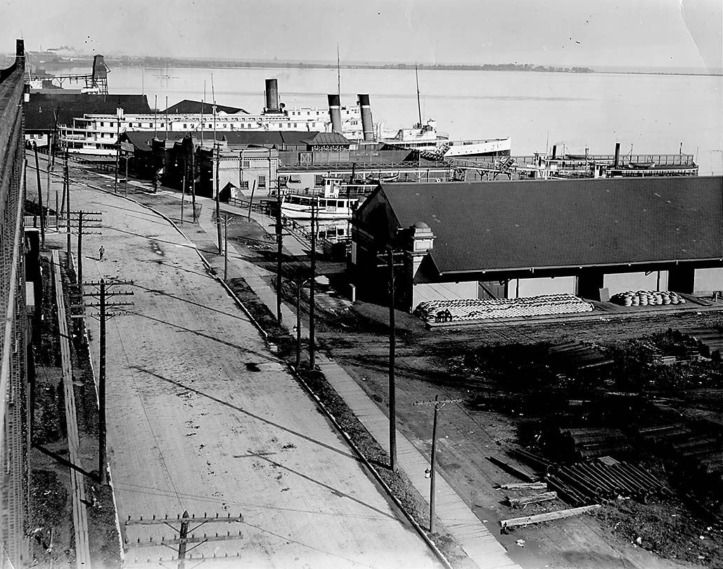 Queen's Quay (then Lake Street). (Toronto, Canada)